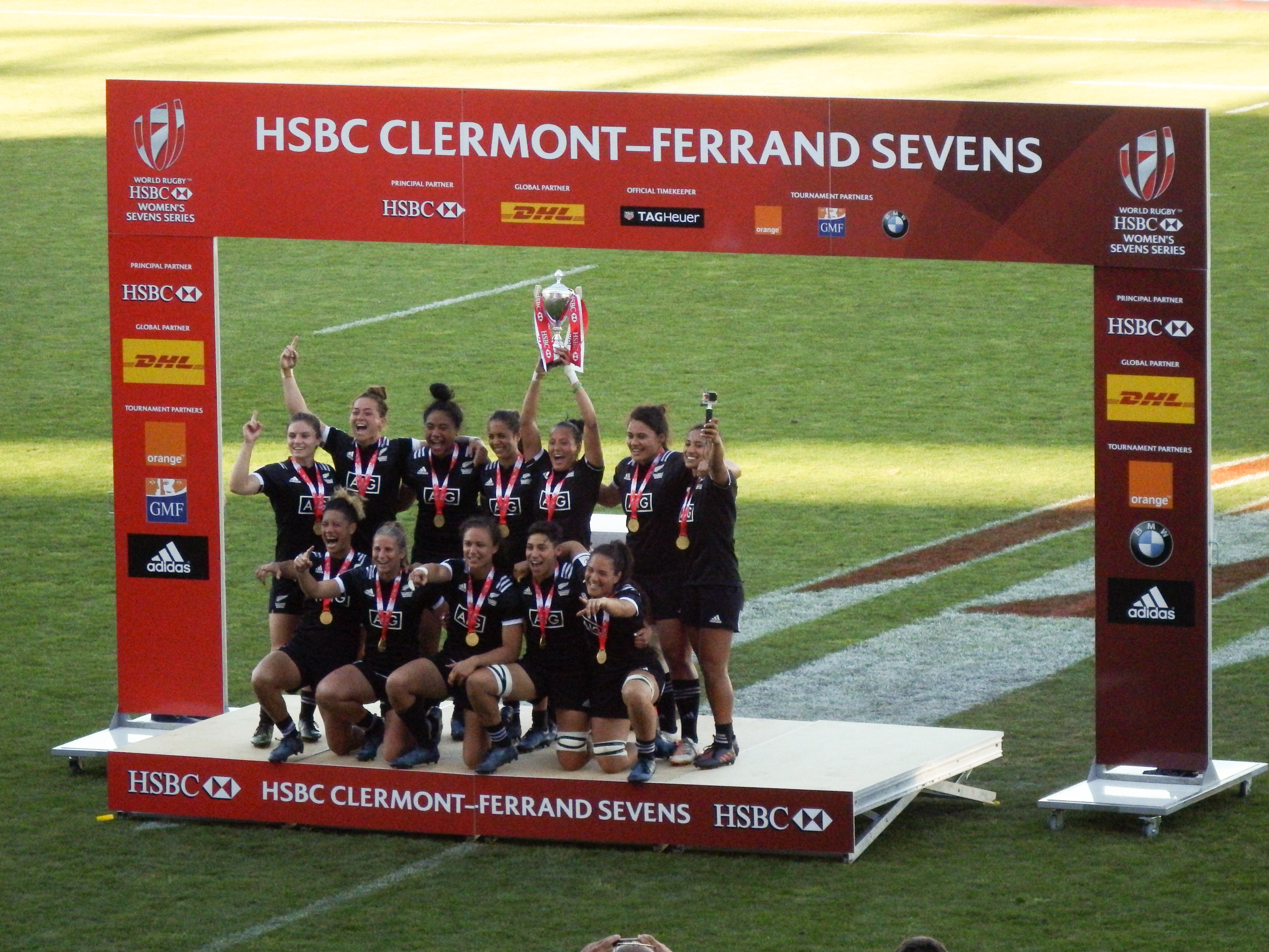 2017 France Women's Sevens — 25 June 2017, Stade Gabriel Montpied. Match between: New Zealand women's national rugby sevens team — Australia women's national rugby sevens team